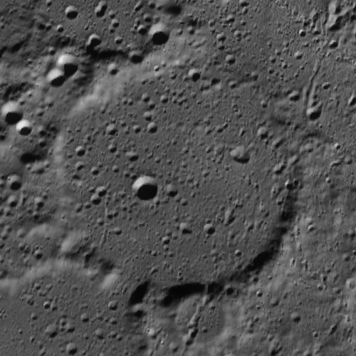 Poncelet crater, on the moon. Lunar Reconnaissance Orbiter North Polar mosaic.